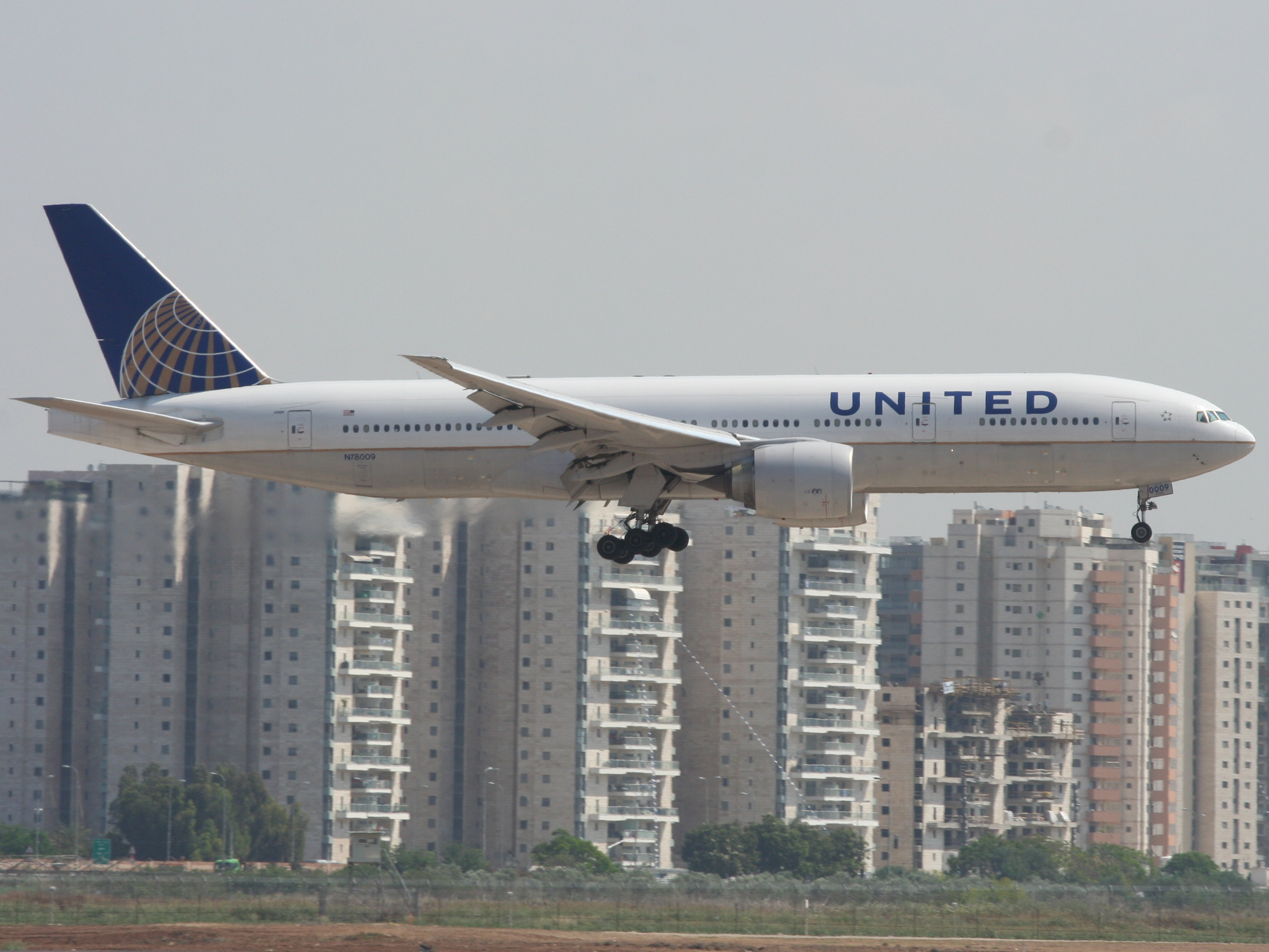 At Ben Gurion International airport.